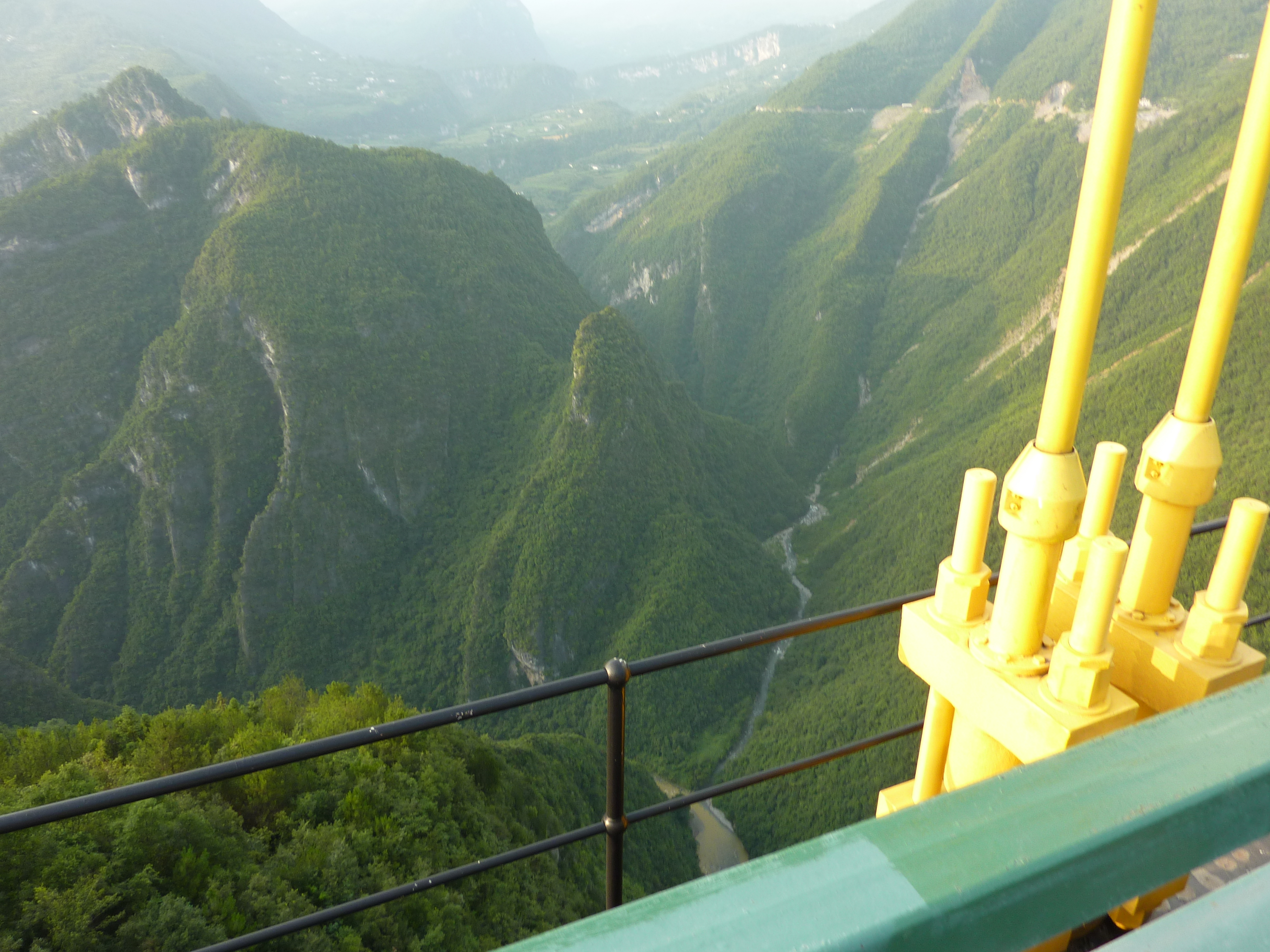 The Si Du River Bridge (Siduhe Bridge, 四渡河特大桥) is a 4,010 foot (1,222 m) long suspension bridge crossing the valley of the Si Du River near Yesanguan in Badong County of the Hubei Province of the People's Republic of China.